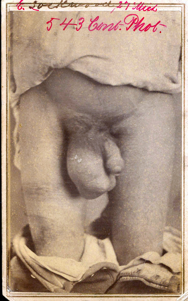 LOCKWOOD, EDGAR ; Scrotal hernia. PVT, Company H, 27th MICHIGAN VOLUNTEERS Dr. BONTECOU, R.B.